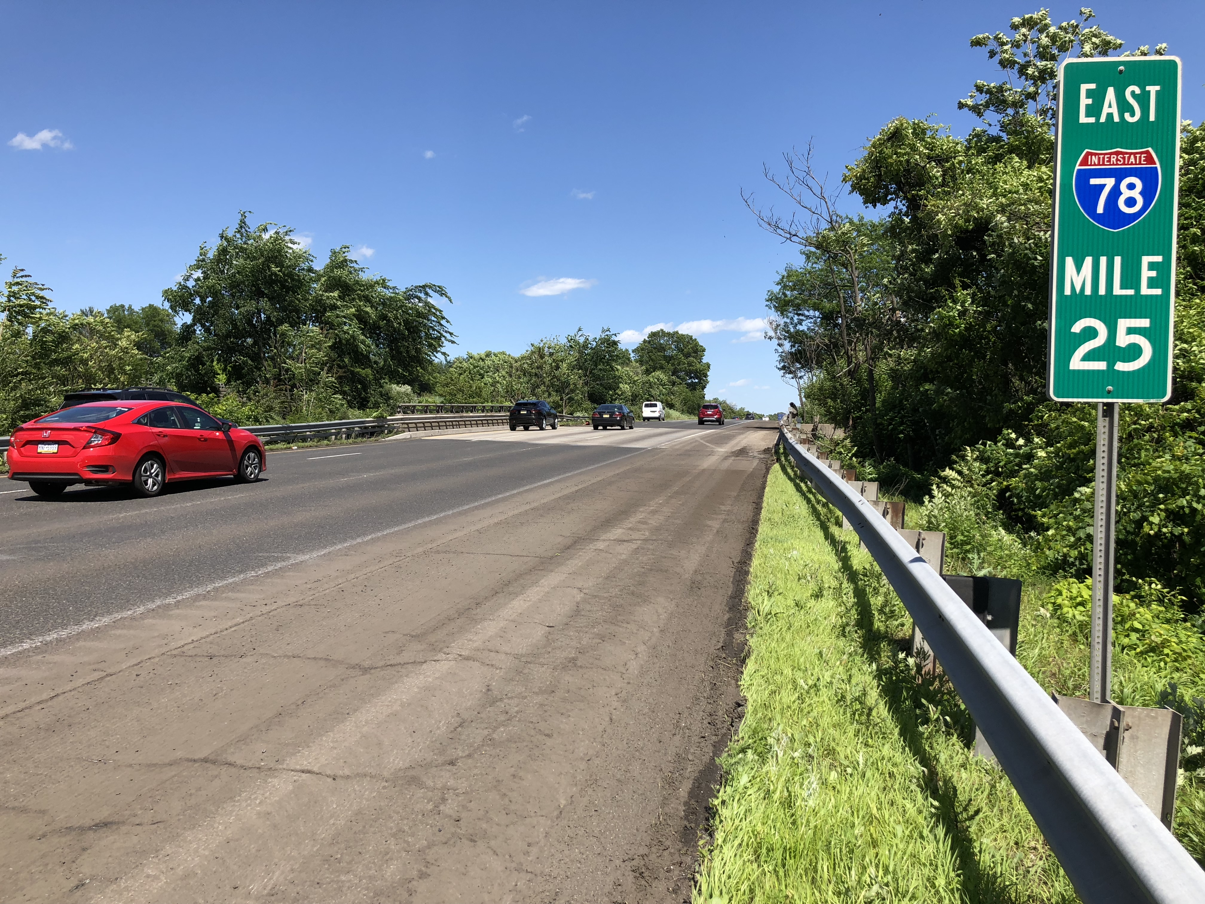 View east along Interstate 78 (Phillipsburg-Newark Expressway) just east of Exit 24 in Tewksbury Township, Hunterdon County, New Jersey